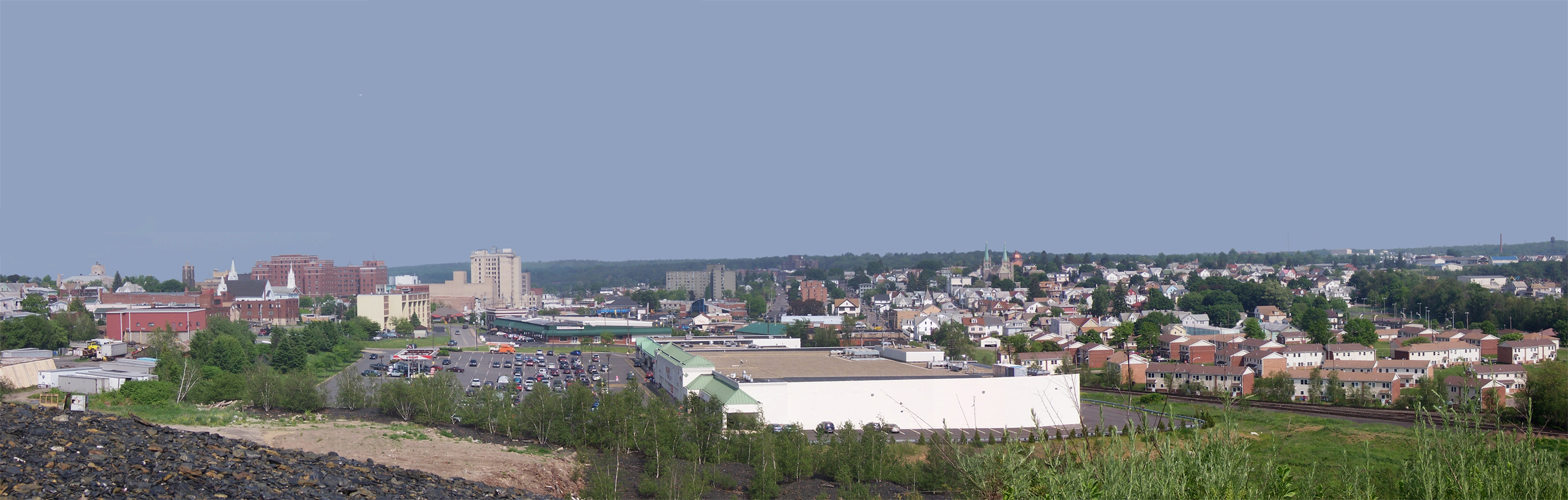 Downtown Hazleton, PA